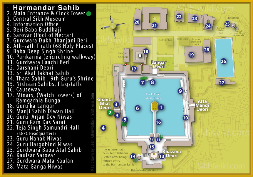 a map drawn to add to articles at sikhiwiki